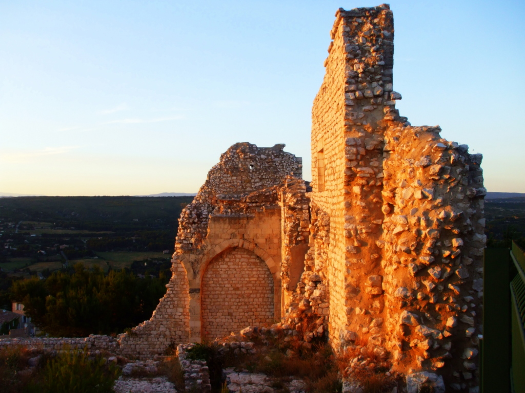 Castle of Ventabren